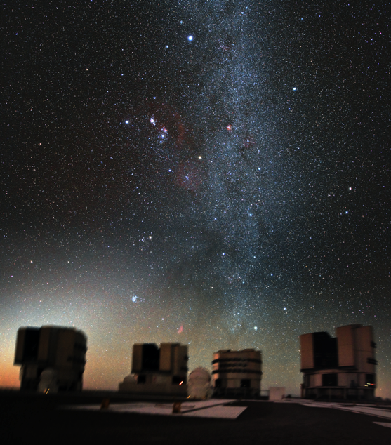 The great hunter Orion hangs above ESO’s Very Large Telescope (VLT), in this stunning, previously unseen, image. As the VLT is in the Southern Hemisphere, Orion is seen here head down, as if plunging towards the Chilean Atacama Desert. At night the four giant 8.2-metre Unit Telescopes of the VLT are all turned skywards to help astronomers in their quest to understand the Universe. The band of the Milky Way, criss-crossed by contrasting dark dust lanes, stretches up over the VLT’s Unit Telescope 3 (Melipal), with the bright star Capella glinting just above the telescope. Up and to the left, Orion’s belt and sword, containing the Orion Nebula, lie between the blue star Rigel and the orange Betelgeuse. The red Rosetta Nebula is seen in the middle part of the Milky Way, while Sirius, the brightest star in the night sky, hangs above the scene. The red patch just above the VLT Unit Telescope 2 (Kueyen) is the California Nebula, nicely offset by the blue of the beautiful Pleiades star cluster a little to the left and above.